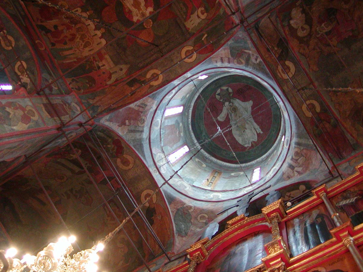 Photo of Archangel Michael Cathedral interior looking up into onion dome, in Moscow Kremlin